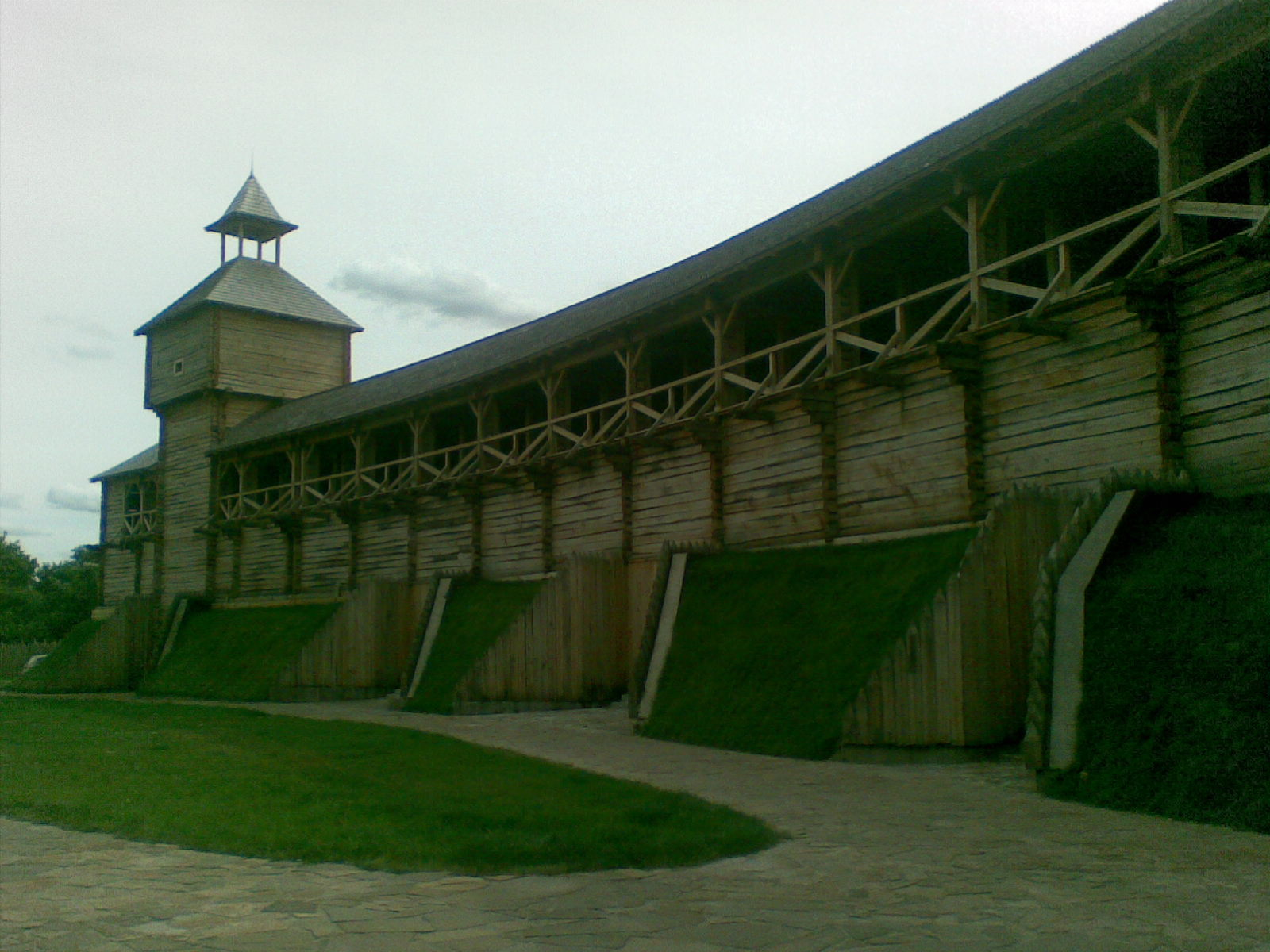 Citadel of Baturyn